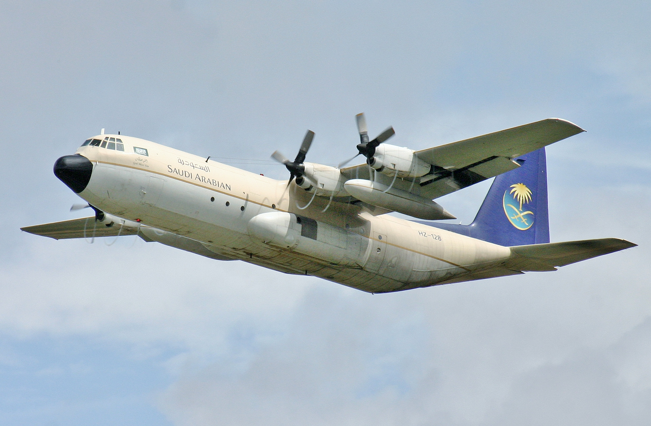 From Royal Saudi AF 1sqn, but in full Saudia c/s. msn 4950. Departing RIAT Fairford. 18-7-2011